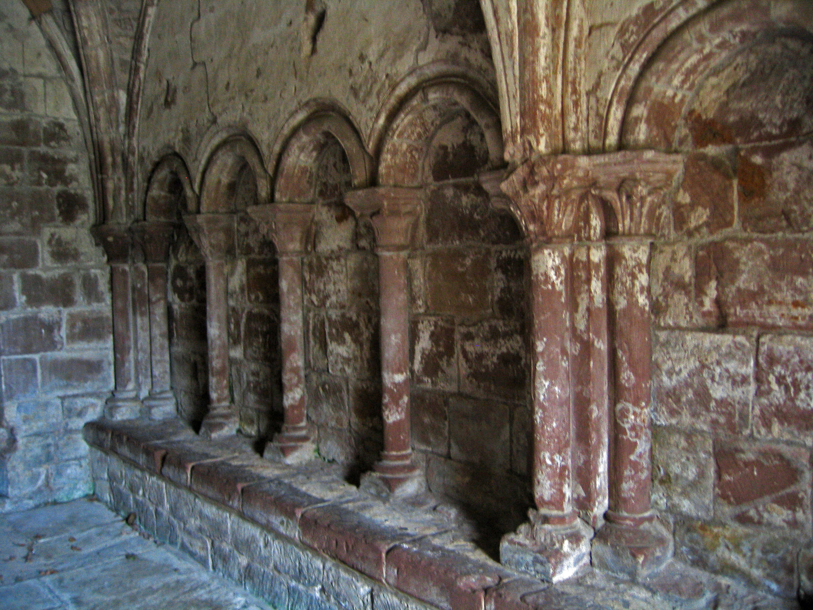 Photograph of the north arcade in the outer parlour of Norton Priory, near Runcorn, Cheshire, England. It was formerly the main entrance to the abbey, then incorporated in to the fabric of the country house, and is now part of the museum.